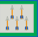 Flag of Akmenė